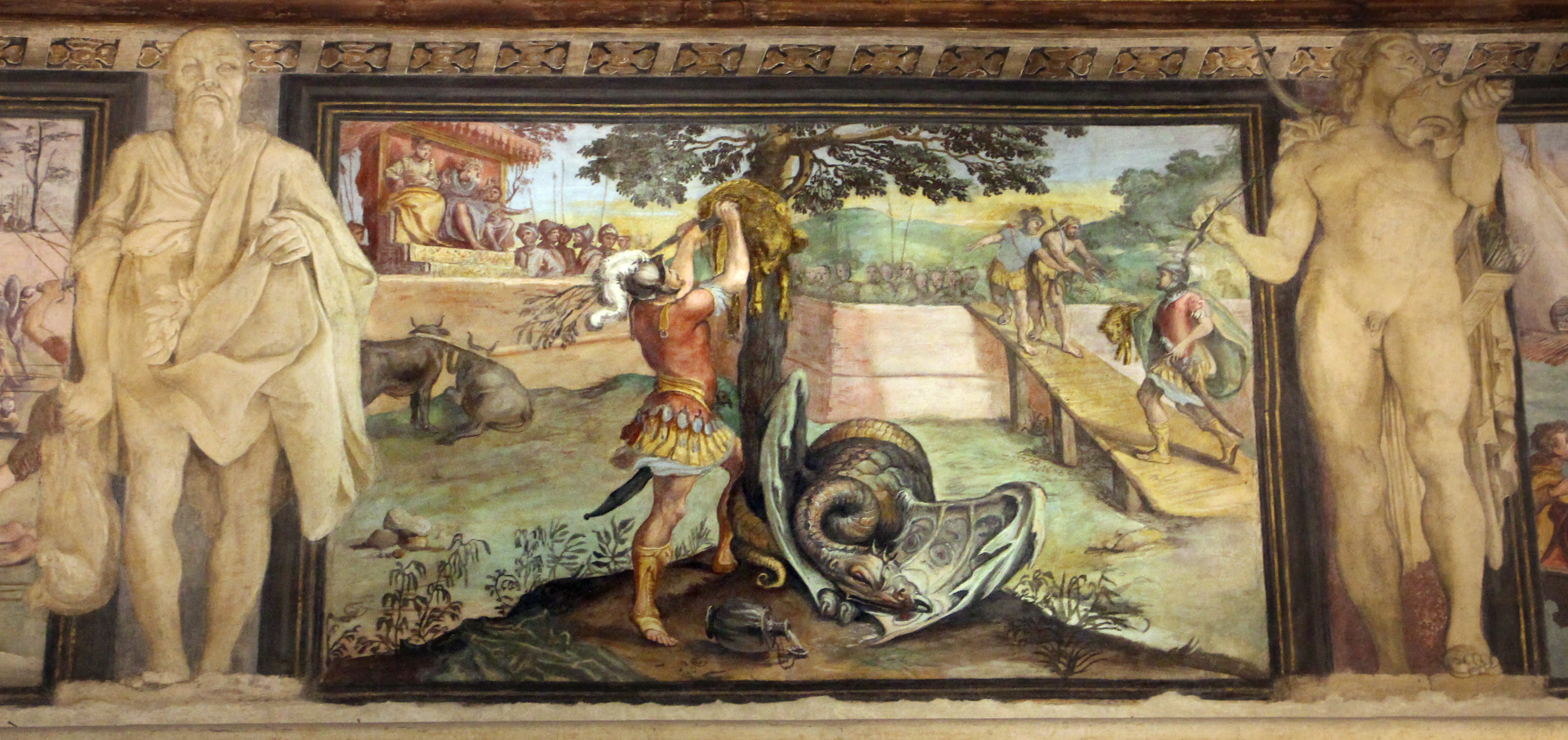 Frieze of Jason and Medea